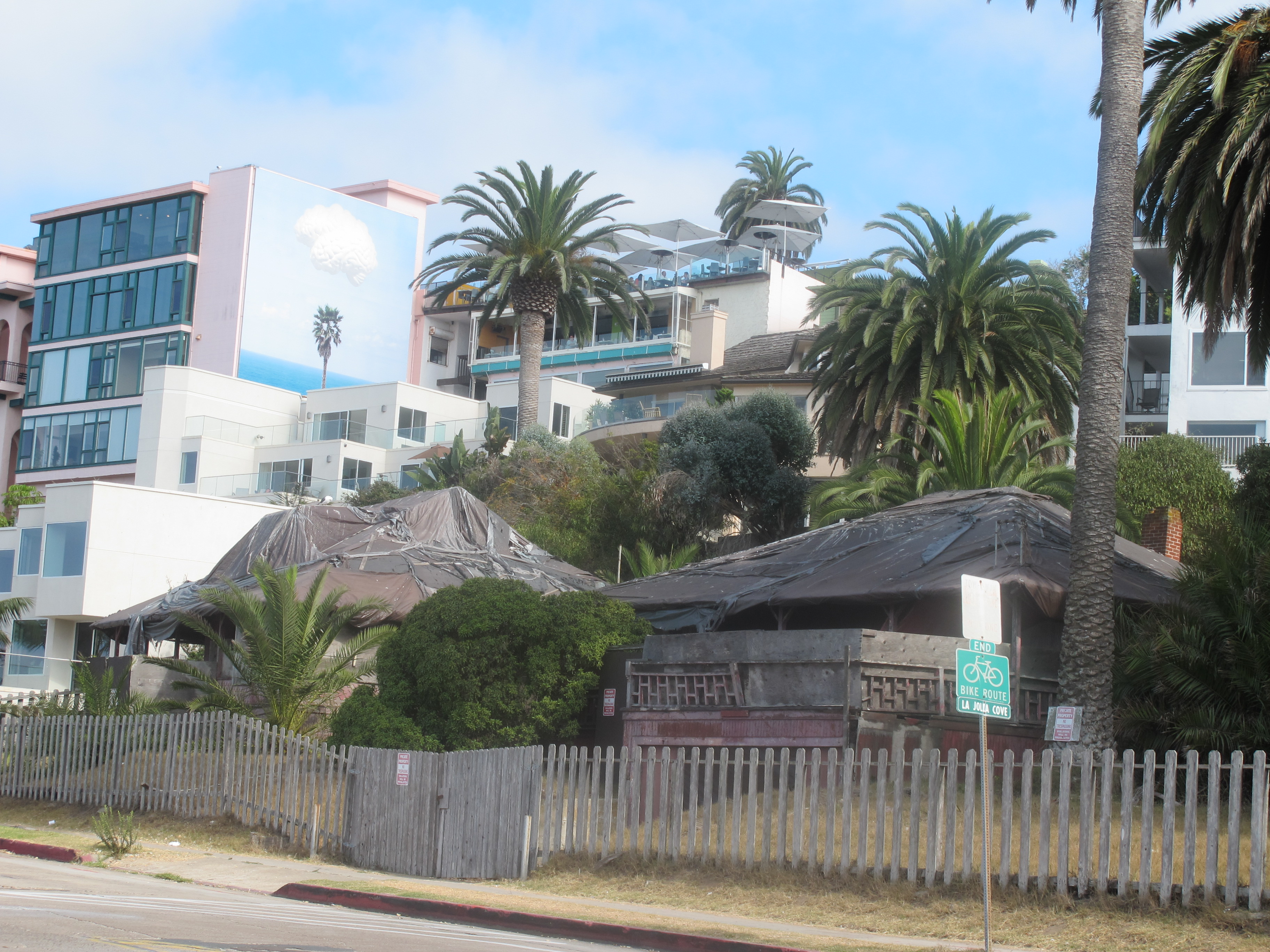 "Red Roost" and "Red Rest" are two bungalow cottages built in 1894 on the road above La Jolla Cove. From the 1980s to at least 2014 the cottages have been covered in tarpaulins.